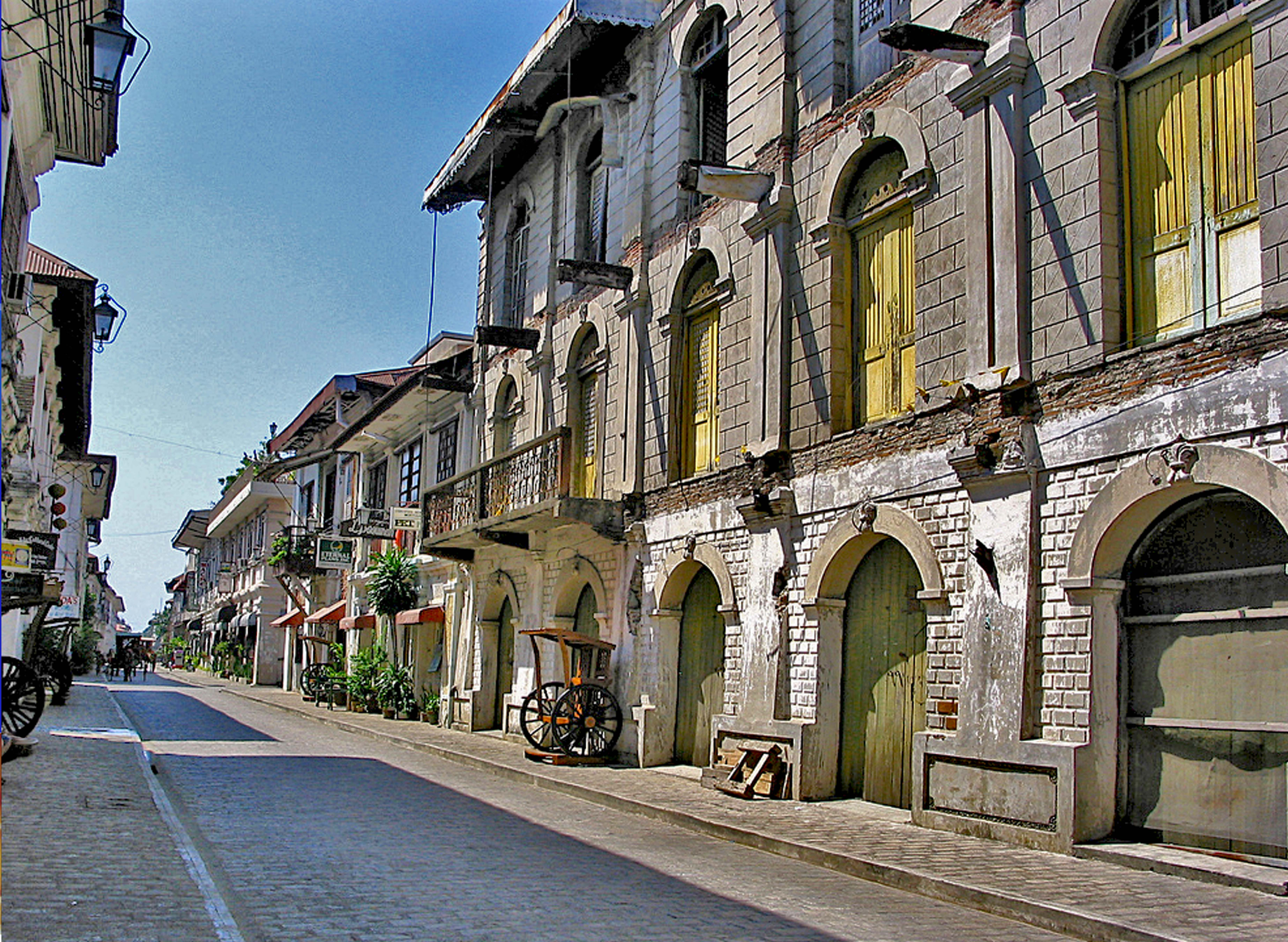 Calle Crisologo